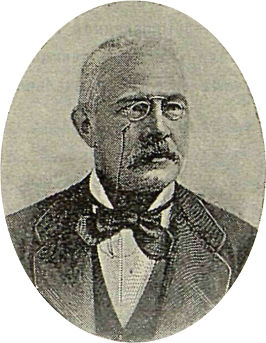 Privy councilor of the Russian Empire Nikolai Shishkin.